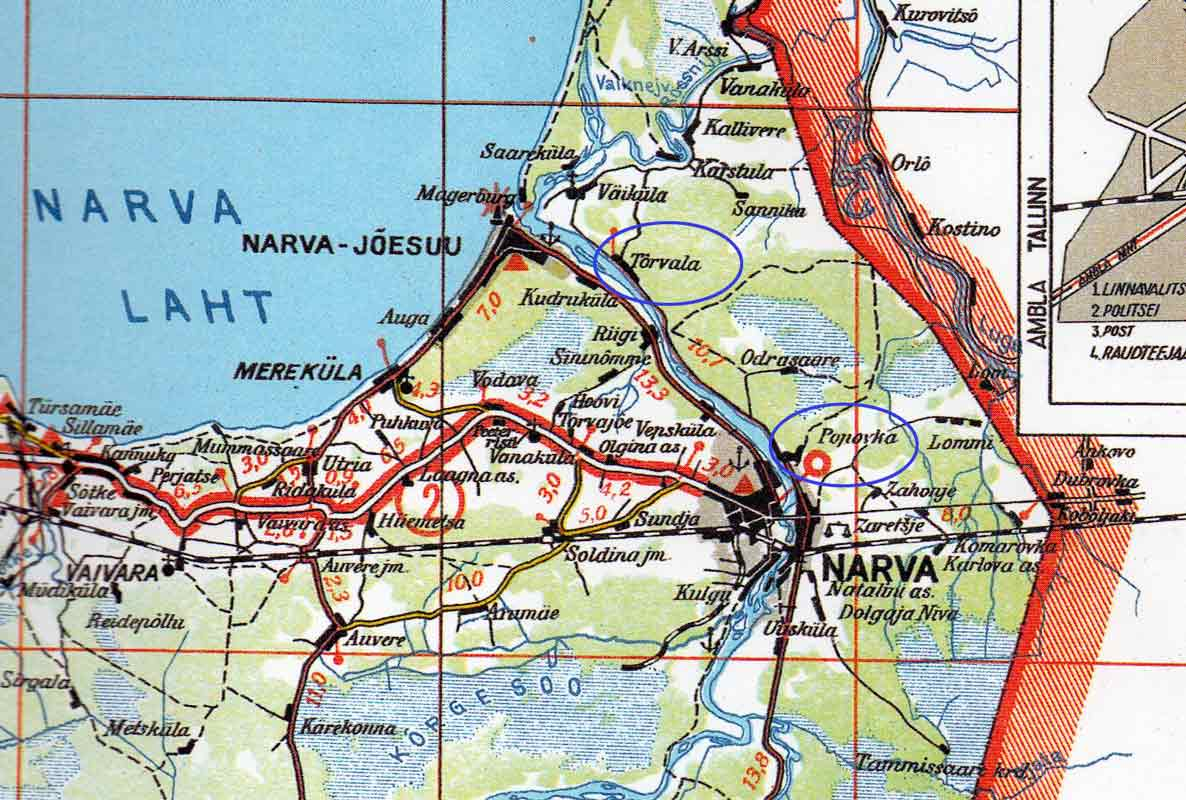 Source: Eesti maanteede kaart 1938